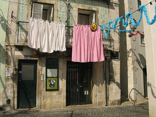 Rua da Regueira in Alfama (Lisbon, Portugal).